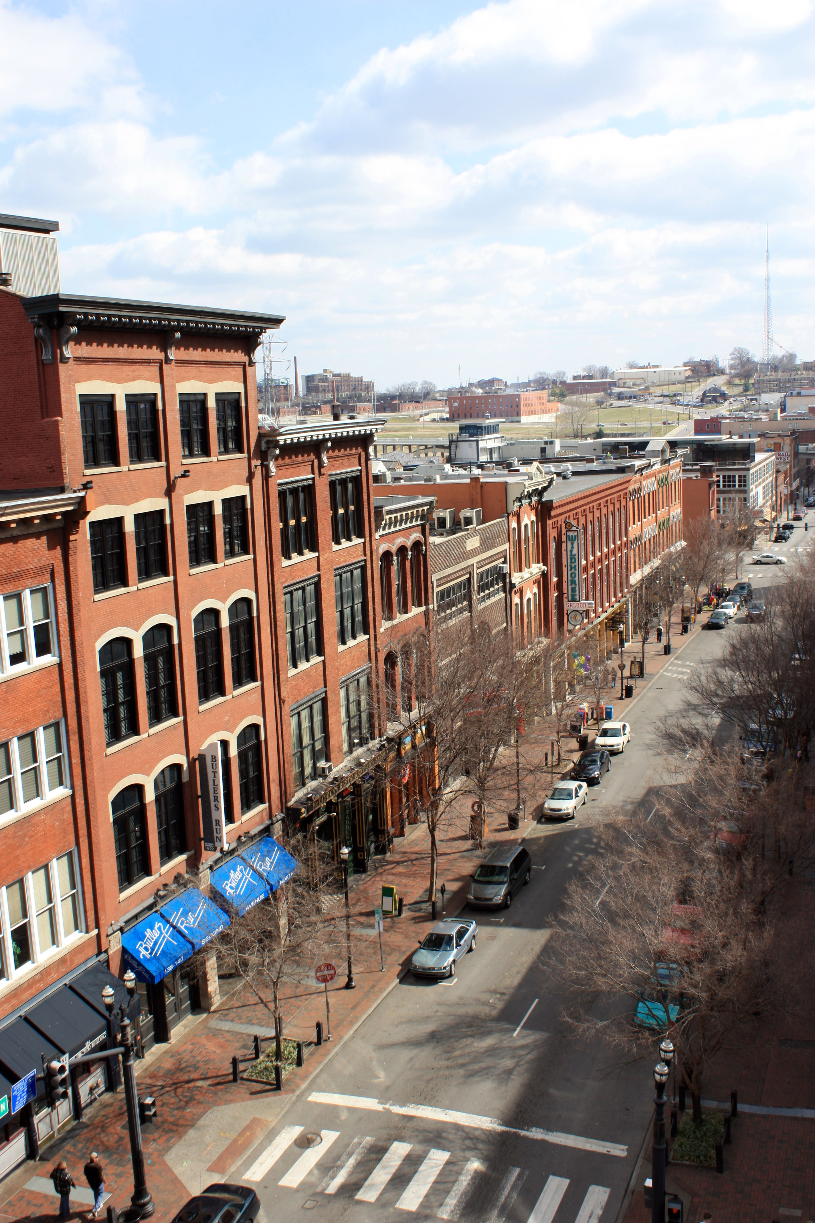 Second Avenue looking towards Broadway in Nashville, Tennessee